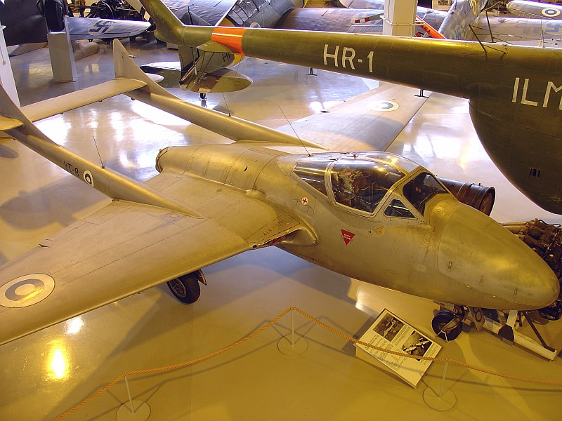 A former Finnish Air Force Vampire Trainer at the Aviation Museum of Central Finland